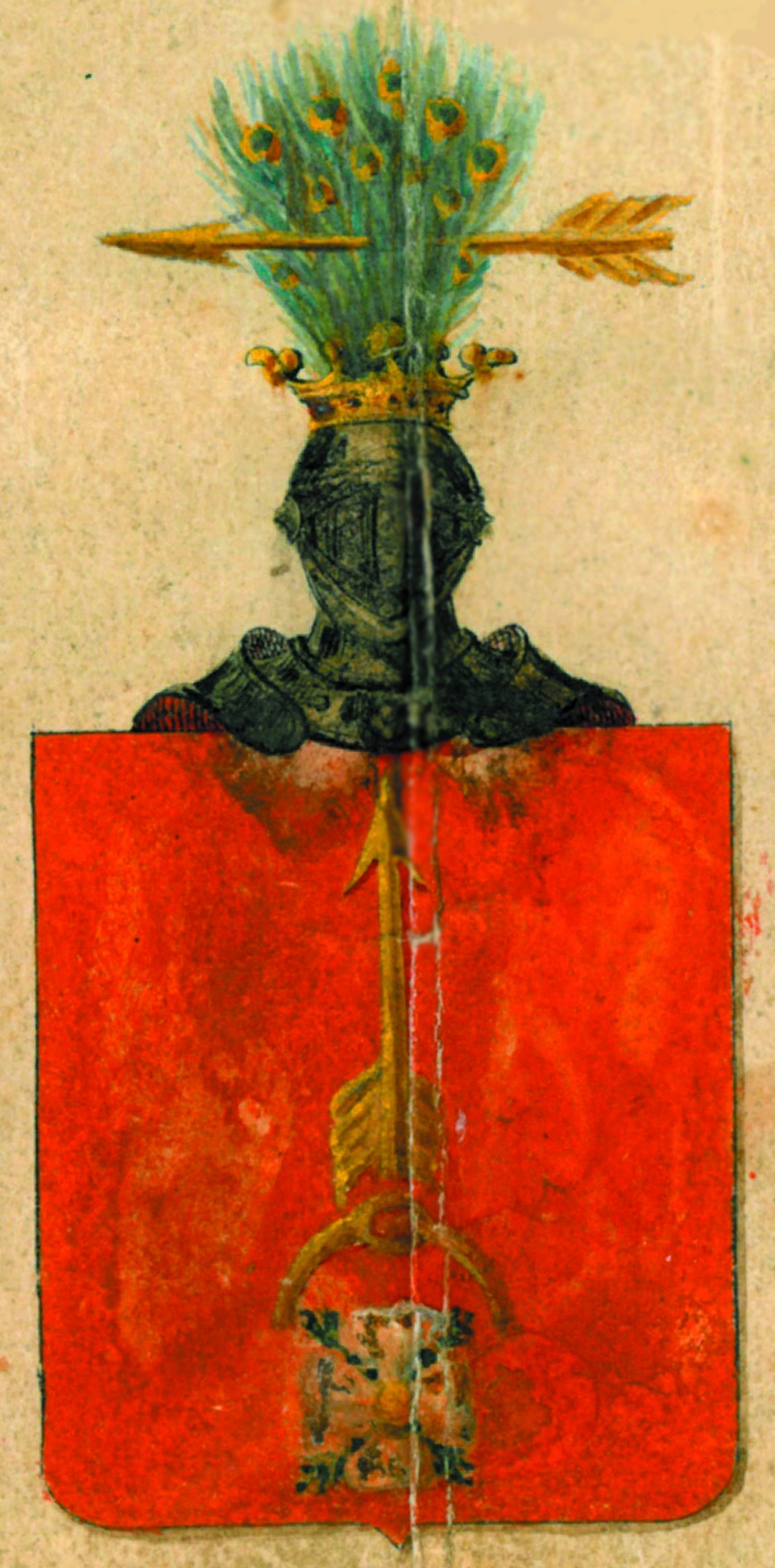 The image of the coat of arms Gnieszawa of nobility Patent of 1848